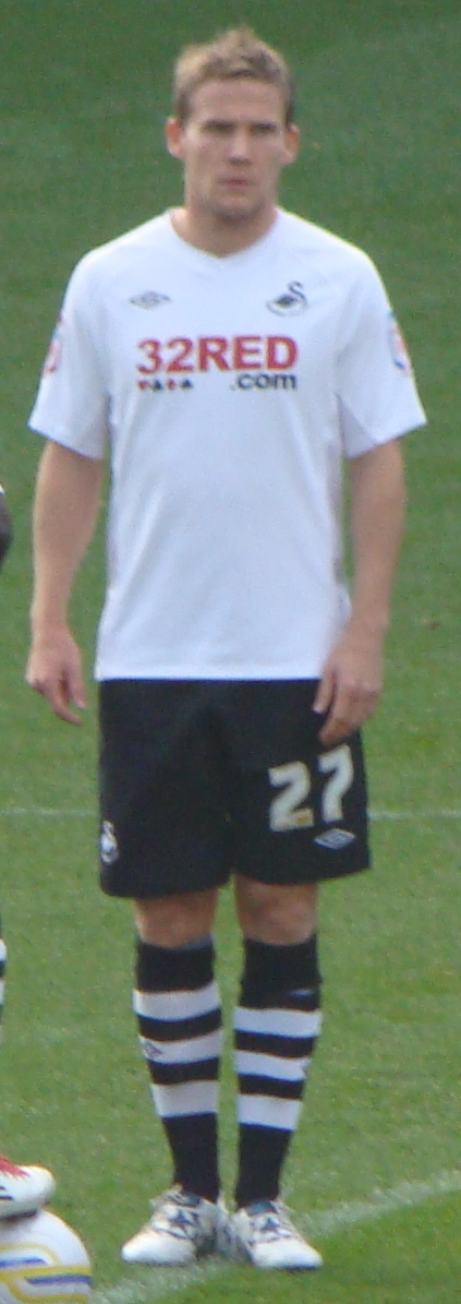 Mark Gower, cropped. 07/11/10 Cardiff V Swansea, Championship, Cardiff City Stadium, Cardiff, Wales